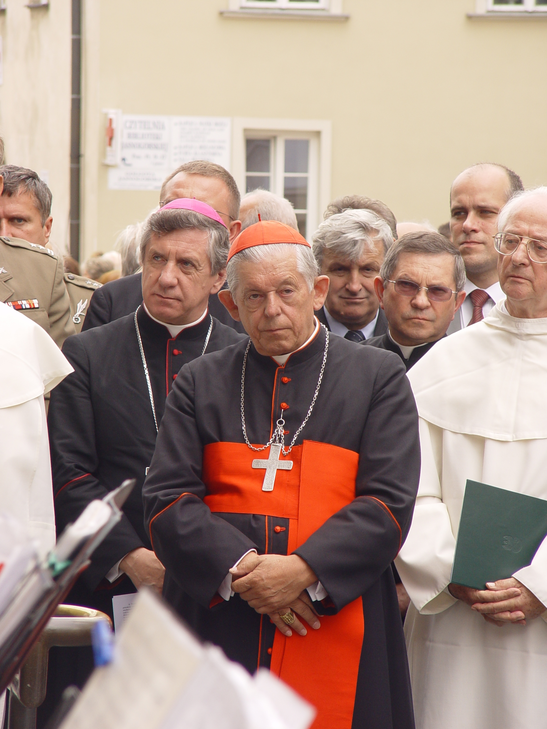 Józef Glemp, Primas of Poland, Polish Cardinal of the Roman Catholic Church, Jasna Góra, 26.08.2008 r.